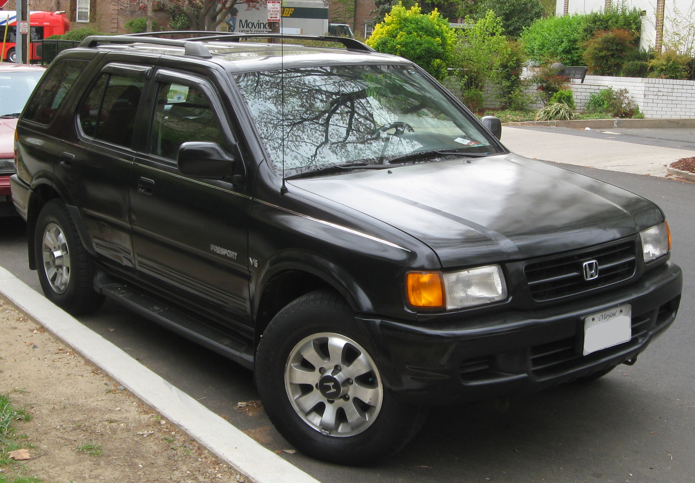 1998-1999 Honda Passport photographed in Washington, D.C., USA.